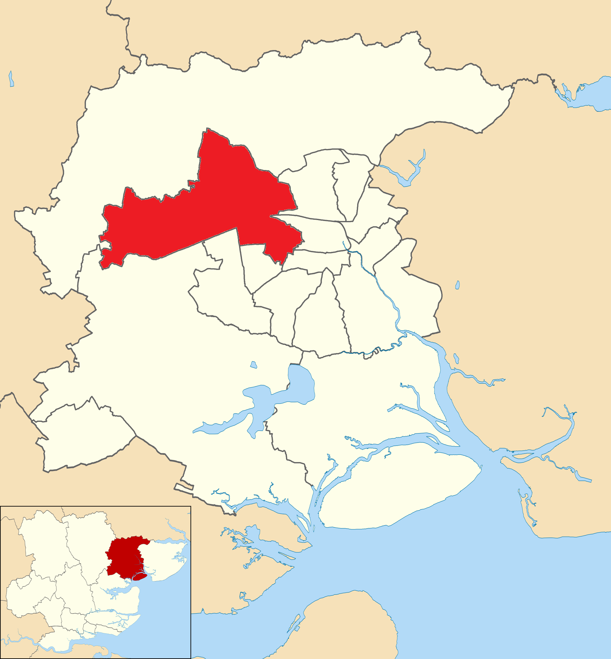 Lexden & Braiswick ward highlighted within Colchester Borough